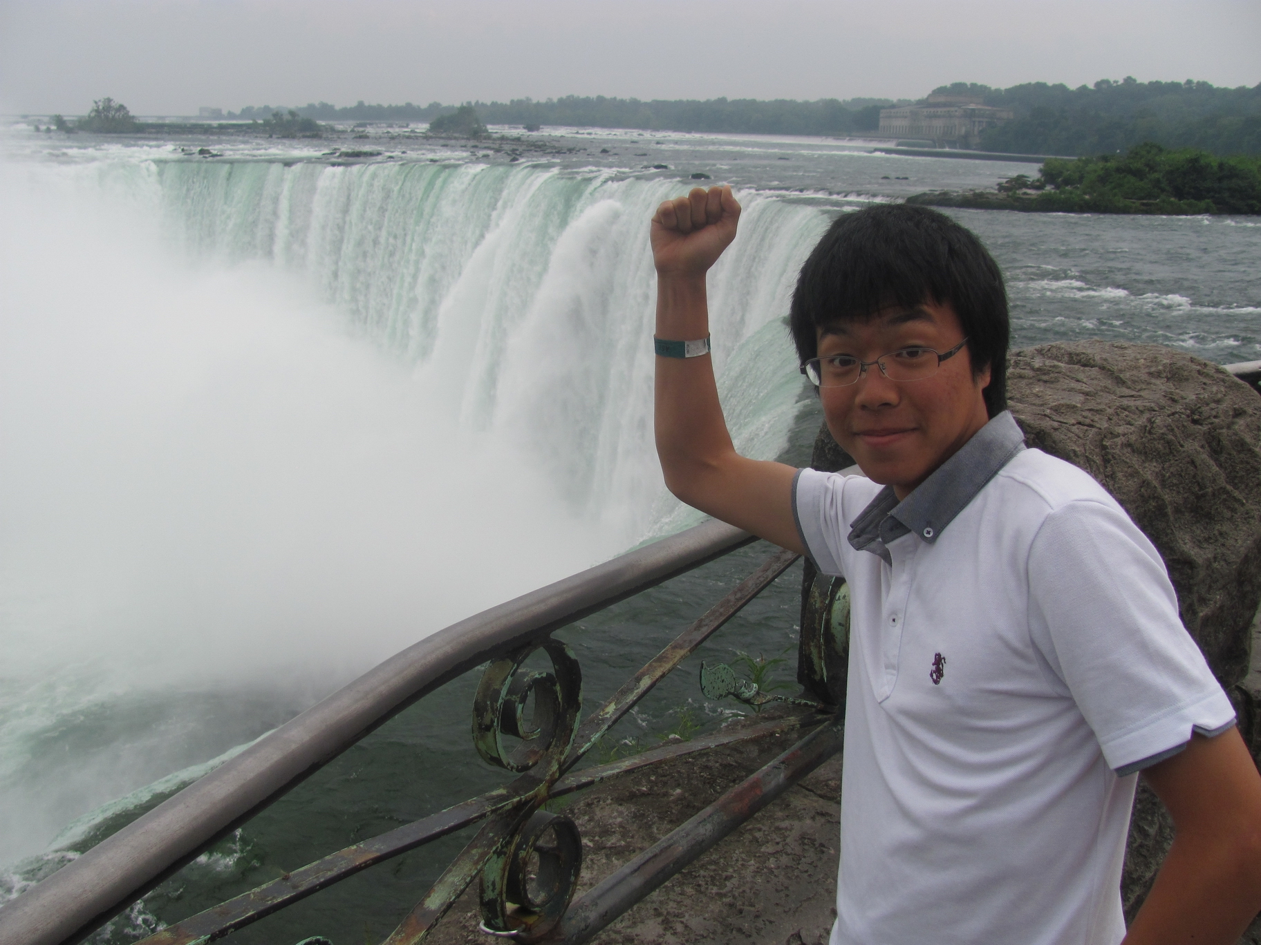 Hikari Okubo at Niagara Falls, Canada in 2013